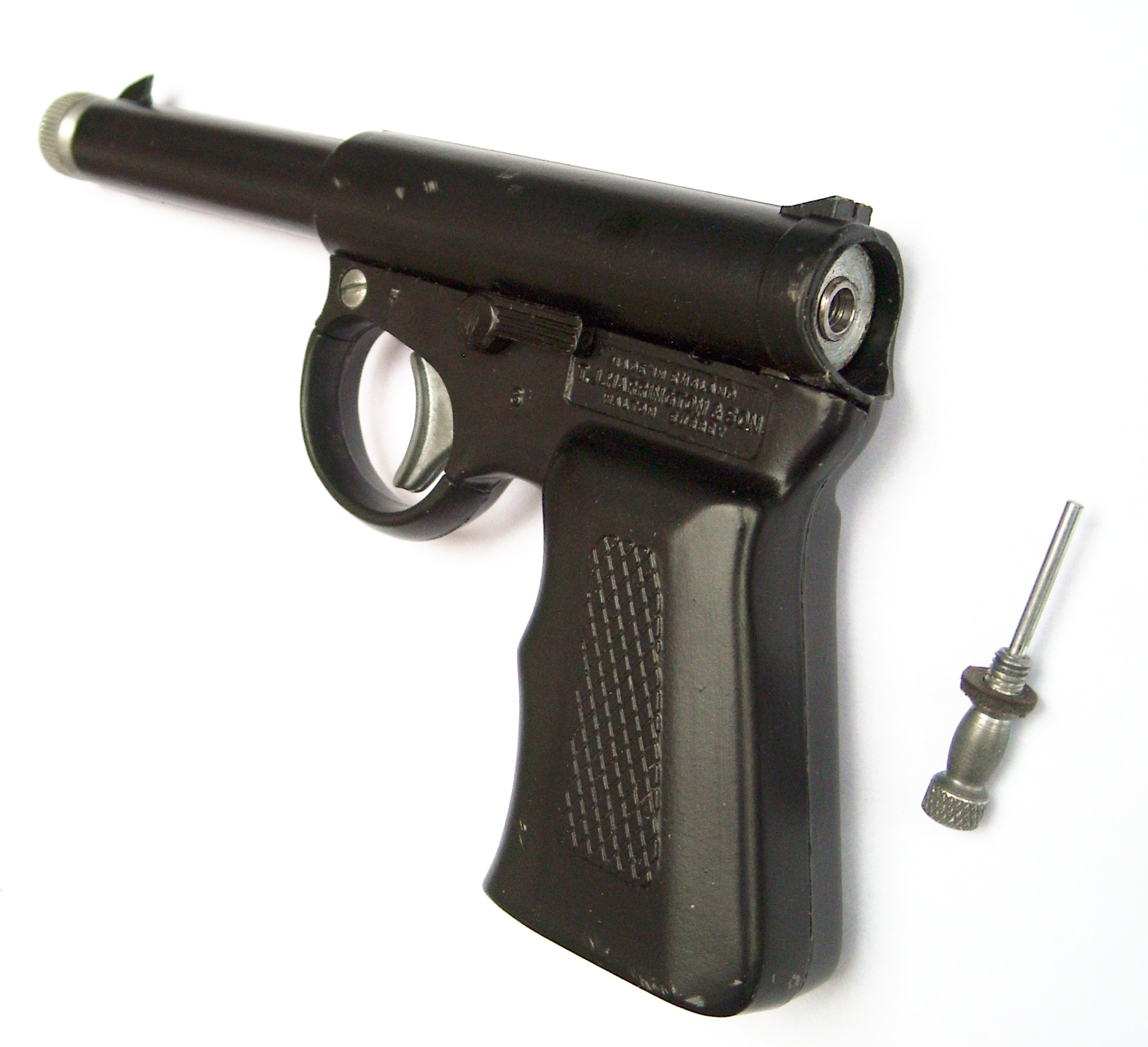 An cocked Gat air pistol with the breech plug unscrewed and the open breech visible.